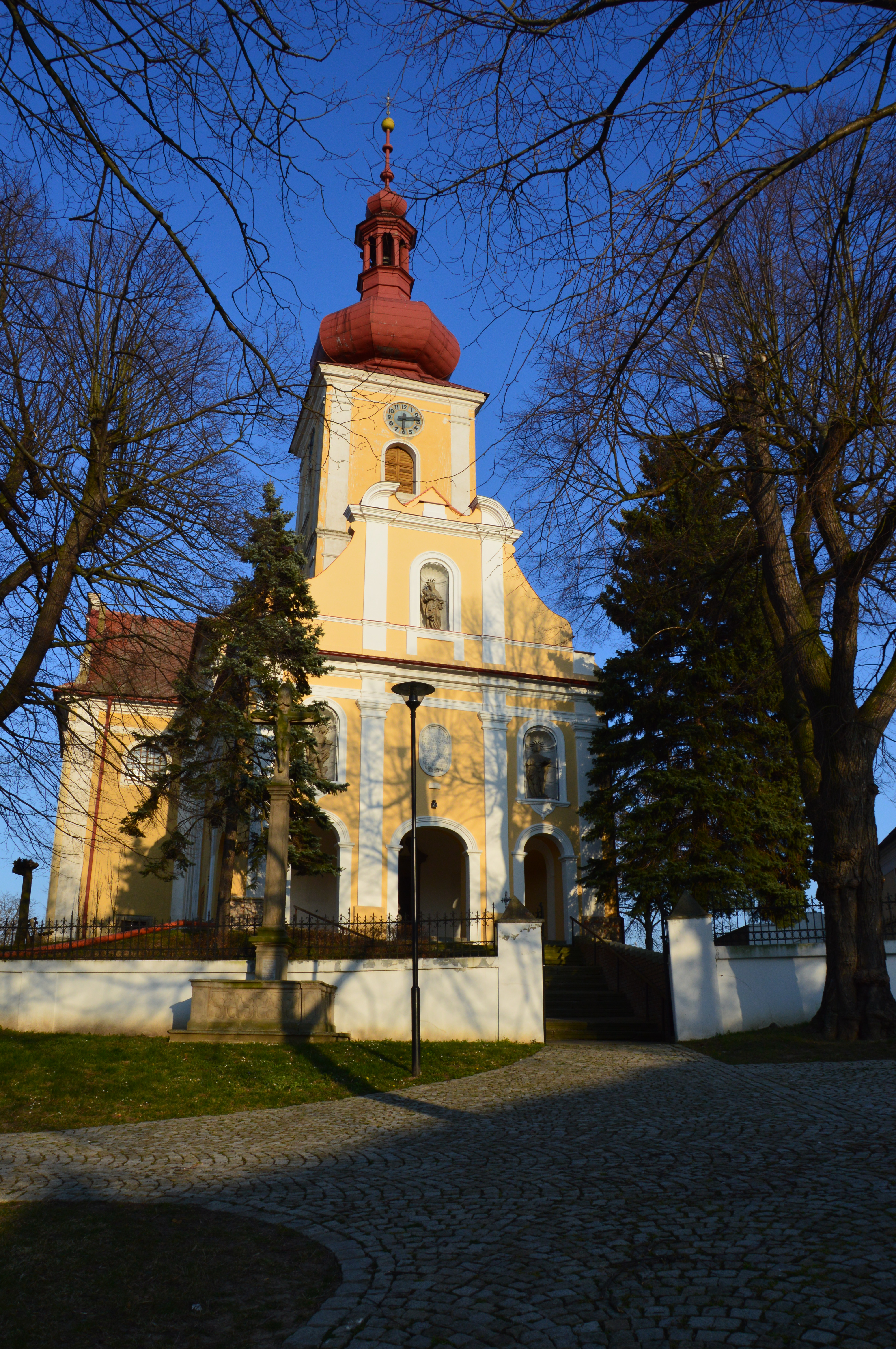 Church of Saints Peter and Paul (Tištín).